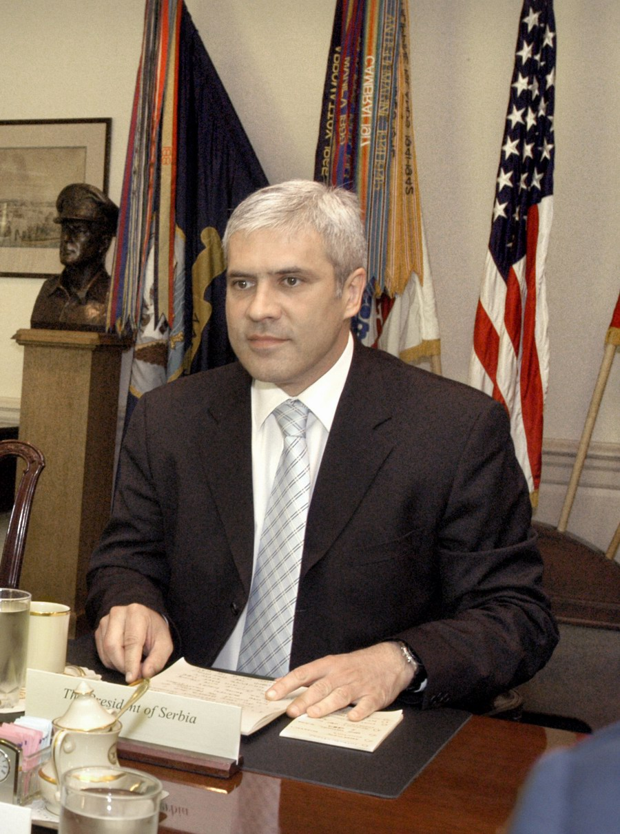 Newly elected President of Serbia Boris Tadic (right) meets with Secretary of Defense Donald H. Rumsfeld (foreground) in the Pentagon on July 20, 2004. Ambassador of Serbia and Montenegro Ivan Vujacic (center) joined Tadic and Rumsfeld in the talks. (cropped)